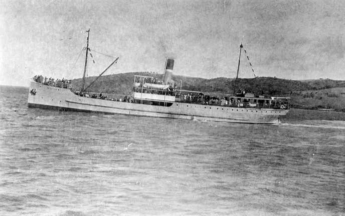 The SS "Karatta" at sea leaving Hog Bay, Penneshaw, Kangaroo Island, 1918 Image from the Searcy Collection, State Library of South Australia. SLSA Image PRG 280/1/3/295